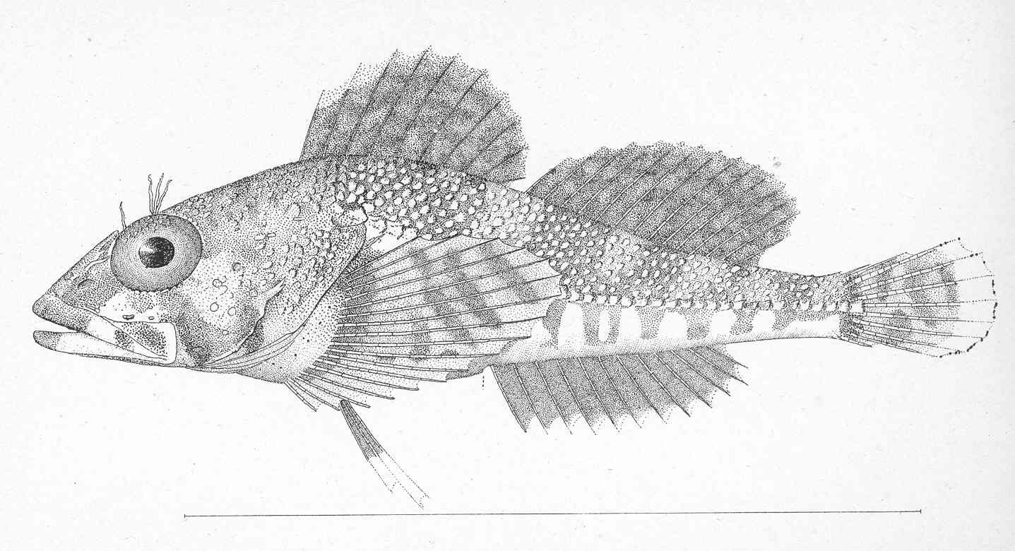 Ruscarius meanyi Subject: Sculpins, Ruscarius Tag: Fish